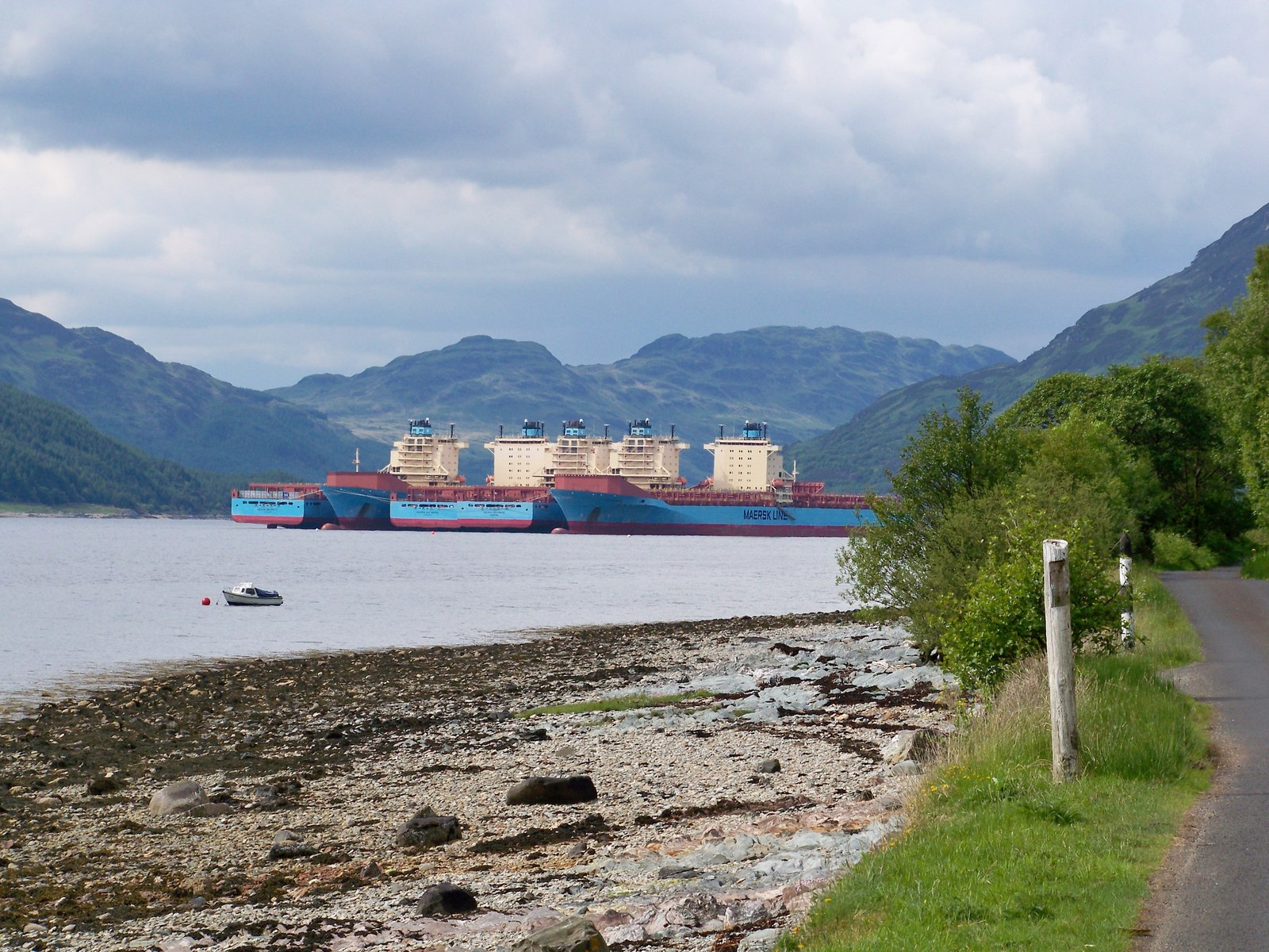 Maersk Container Ships In Loch Striven, near to Inverchaolain, Argyll And Bute, Great Britain. A view of the five Maersk container ships in Loch Striven as viewed from near the Old Schoolhouse. Bentonville IMO Number: 9313929 Baltimore IMO Number: 9313917 Sealand Performance IMO Number: 8212726 Beaumont IMO Number: 9313967 Maersk Boston IMO number: 9313905